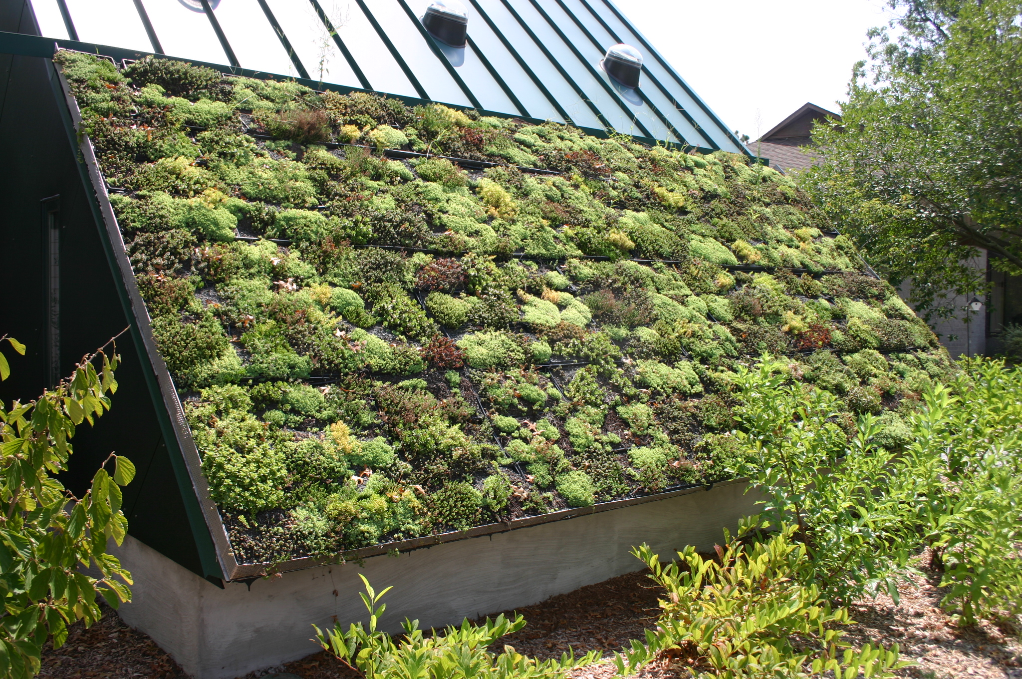 Green Roof at the Virginia Living Museum in Newport News, Virginia